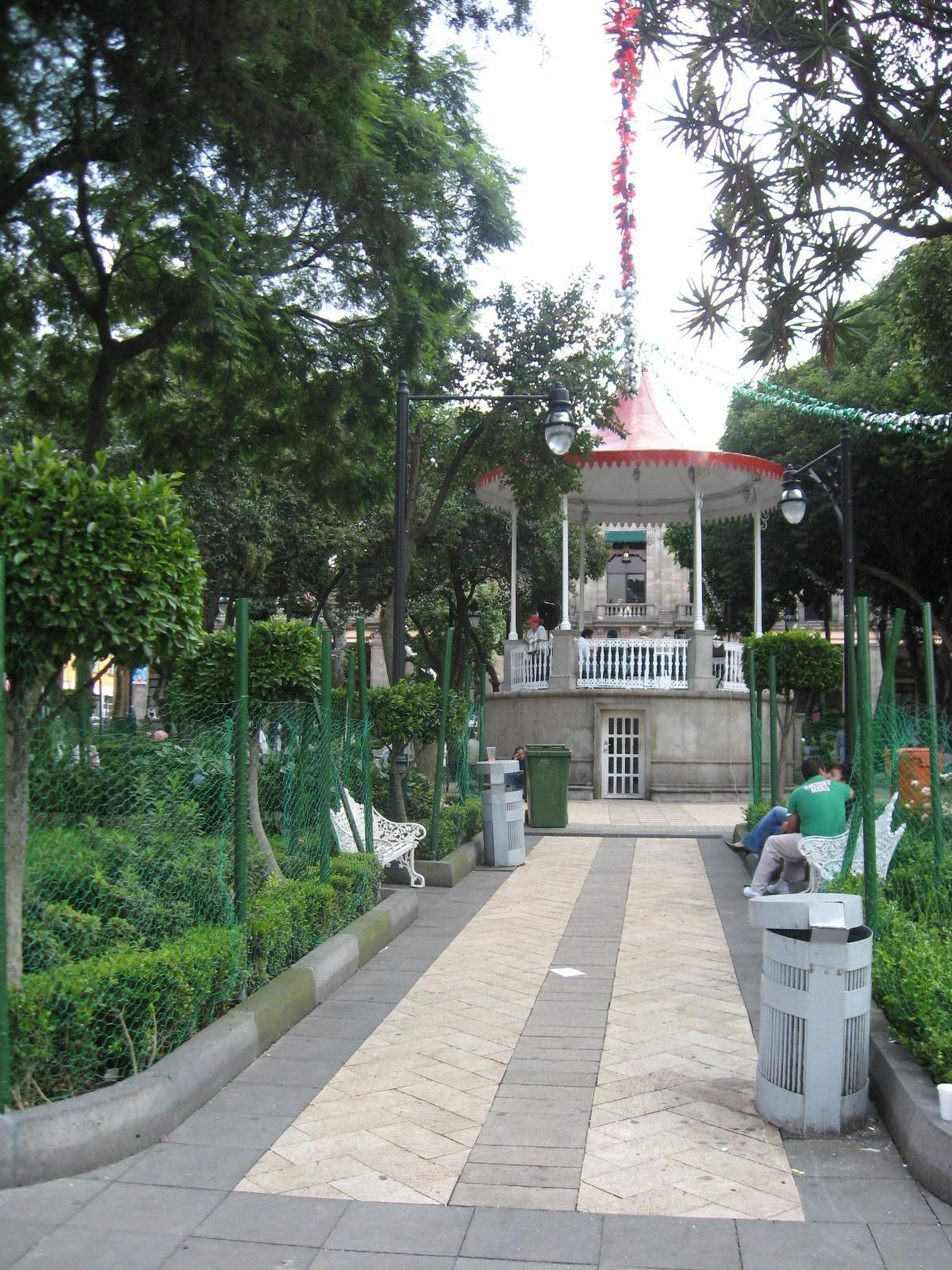 Gazebo in the center of the Jardin Principal (Main Garden) of the Plaza Constitucional in the center of the Tlalpan borough of Mexico City